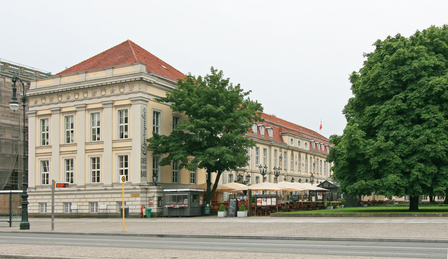 Prinzessinnenpalais, Berlin.